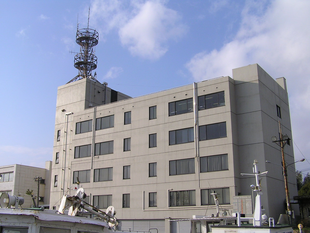 Mizushima port joint government building 6th Regional Coast Guard Headquarters / Mizushima Coast Guard Office Chugoku District Transport Bureau / Okayama Transport Branch Office / Mizushima Maritime Office Kobe Customs / Mizushima Branch Customs Hiroshima Quarantine Station / Mizushima Branch Kobe Plant Protection Station / Hiroshima Branch Office / Mizushima Branch